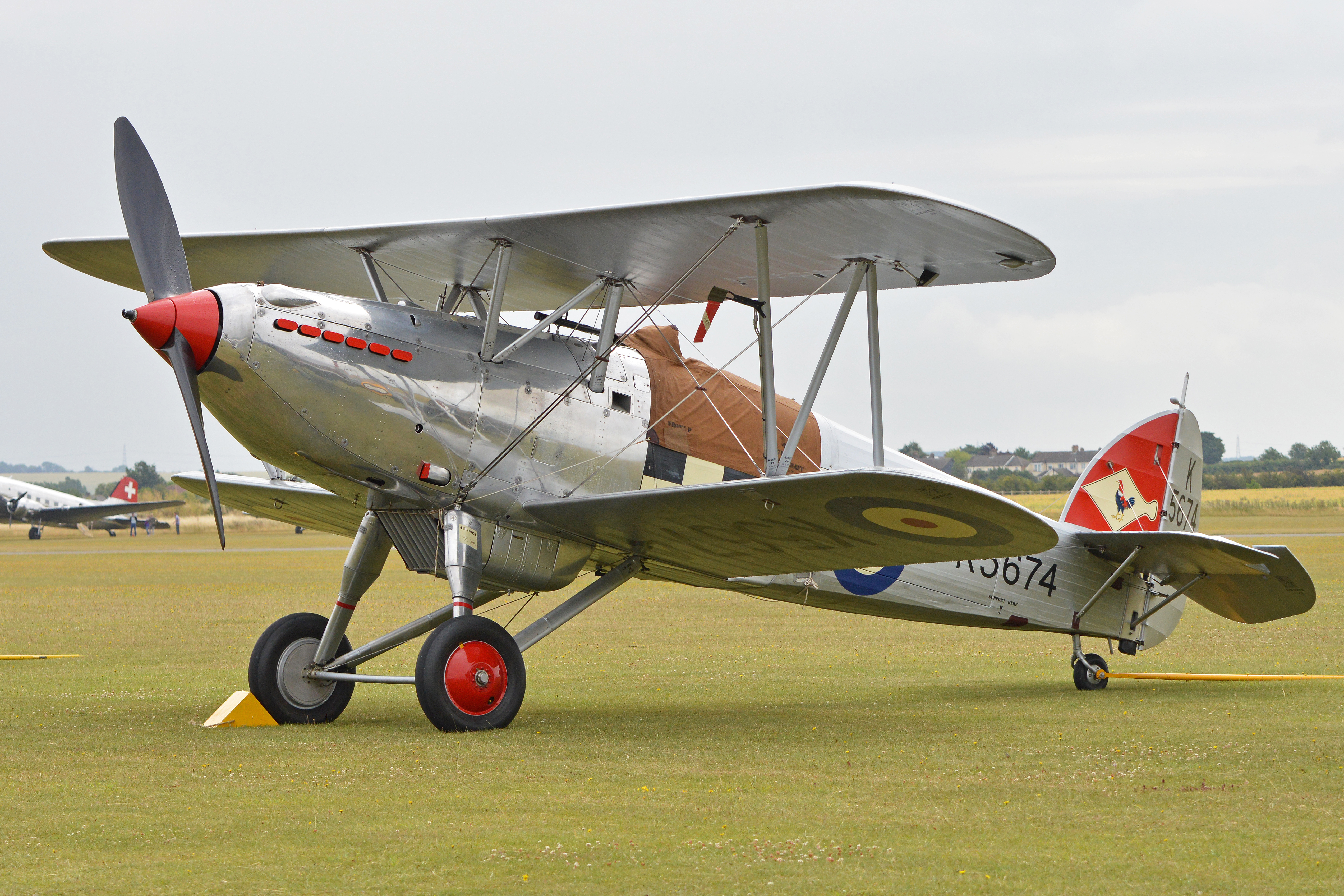 c/n 41H-67550. In the markings of 43sqn RAF. Operated by the Historic Aircraft Collection. 2015 Flying Legends Airshow. Duxford, Cambridgeshire, UK. 12-7-2015